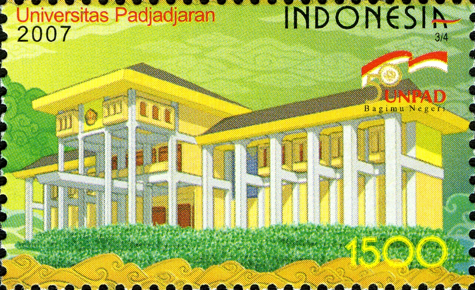 Stamps of Indonesia